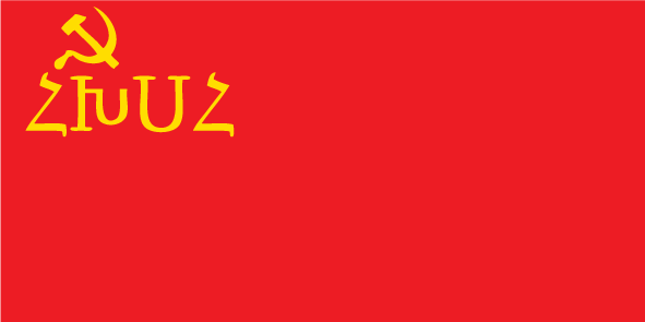 Flag of the Armenian Soviet Socialist Republic (1936-1940)